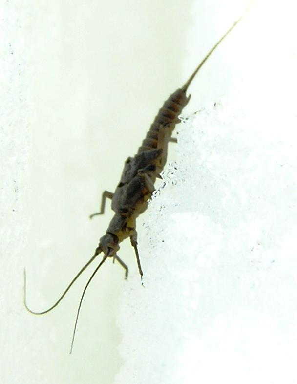 Female nymph of Oemopteryx glacialis, WI: Lincoln Co., Wisc. R., 3/2009, on ice.